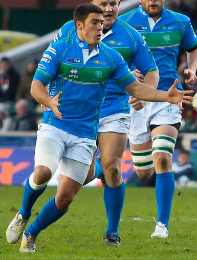 Leicester Tigers vs Benetton Treviso in a Heineken Cup Pool Game at Welford Road, Leicester, England